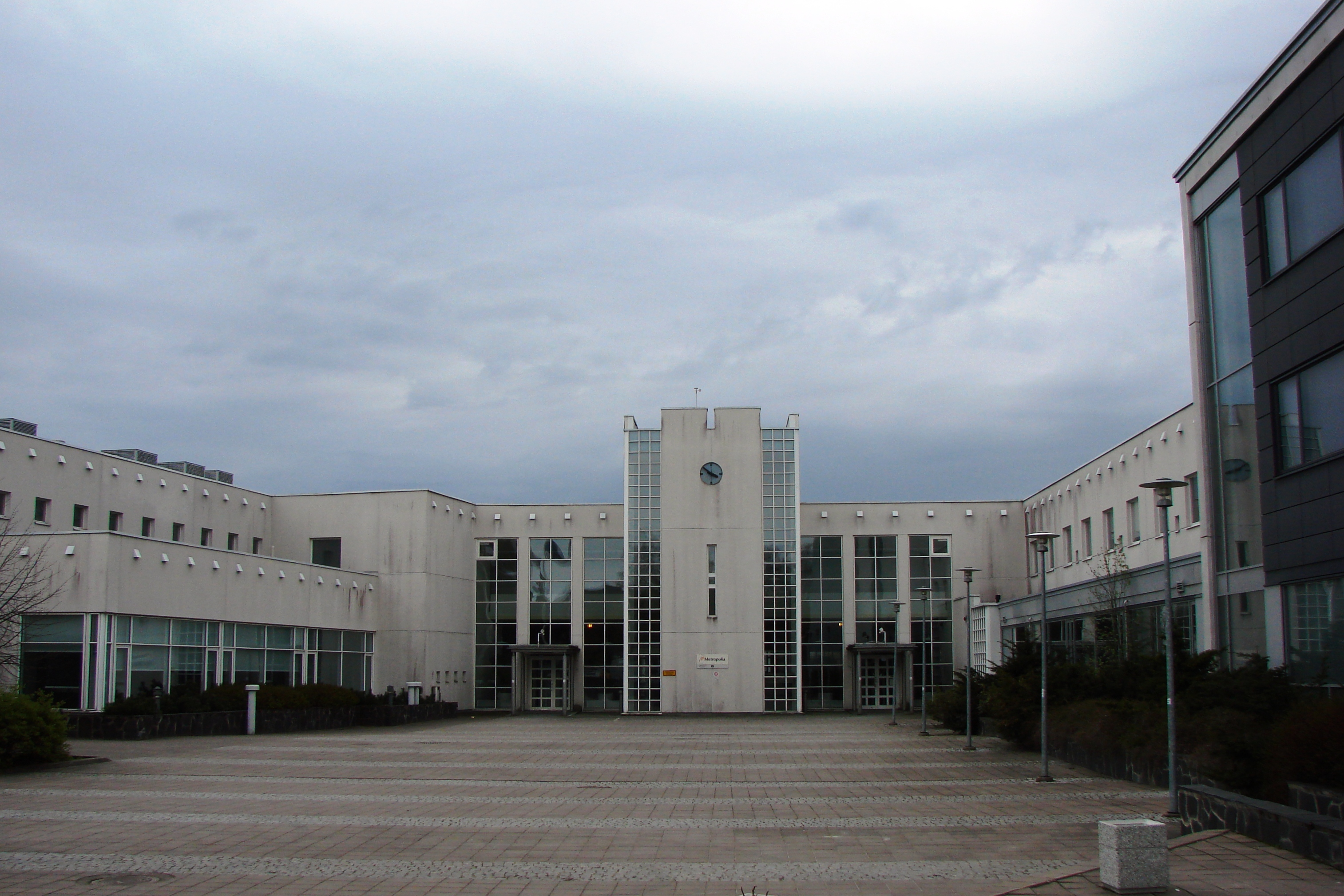 Helsinki Metropolia University of Applied Sciences, Leppävaara campus.